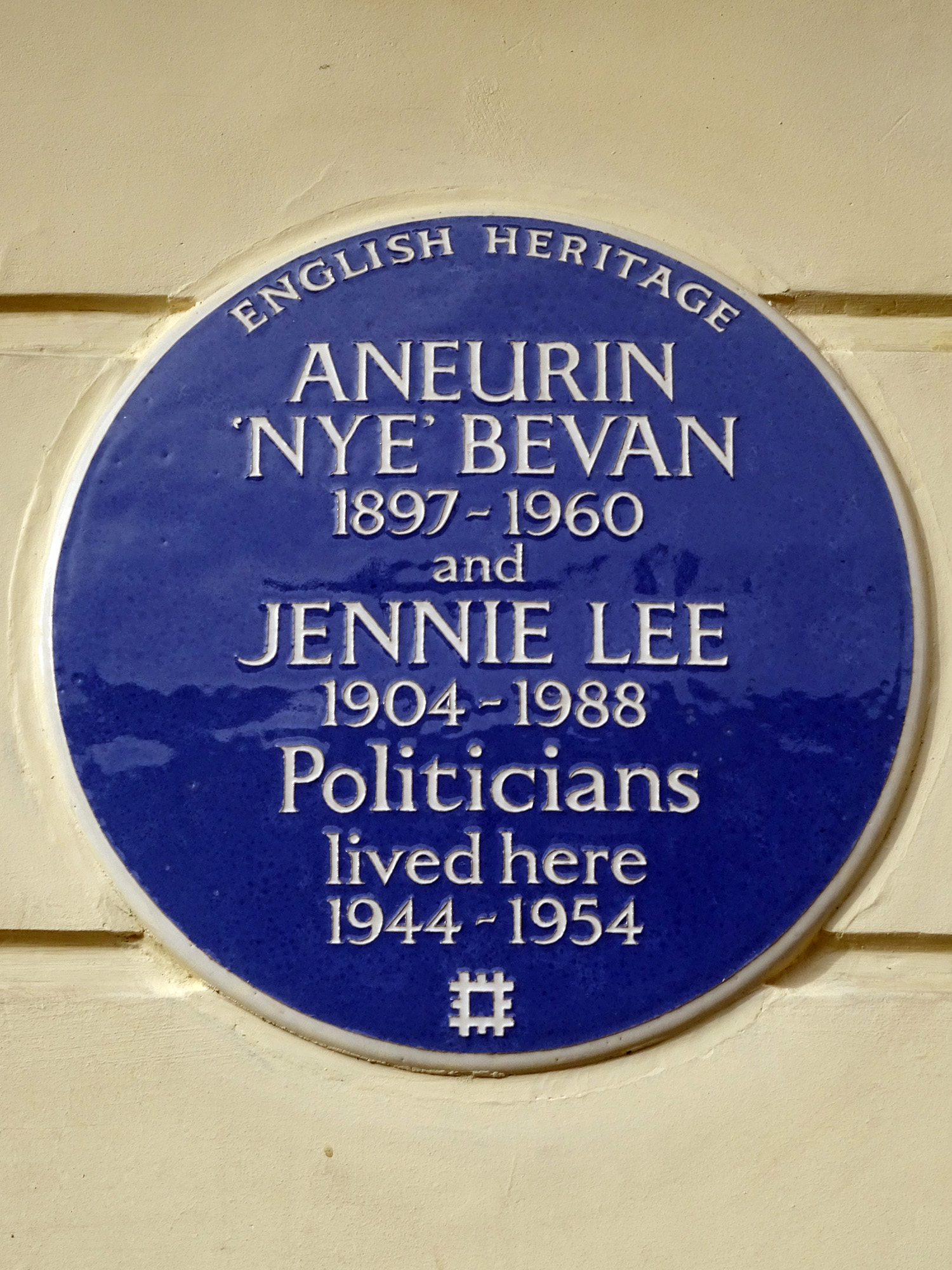 Blue plaque erected in 2015 by English Heritage at 23 Cliveden Place, Chelsea, London SW1W 8HD, Royal Borough of Kensington and Chelsea